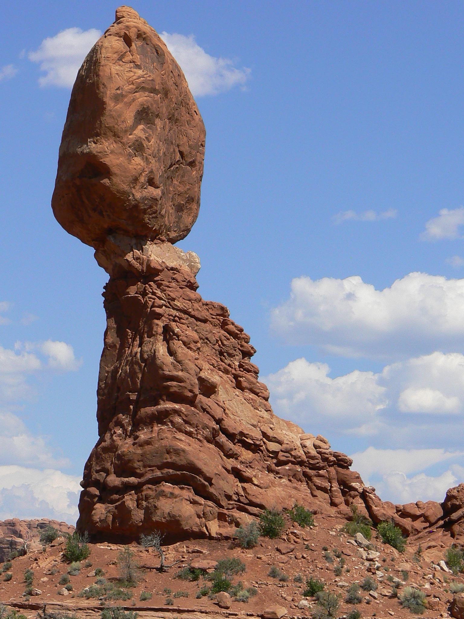 Balanced Rock in Arches National Park, Utah